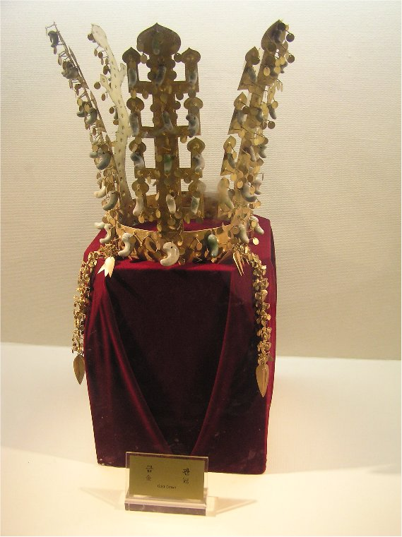 The gold crown excavated from the Heavenly Horse Tomb.